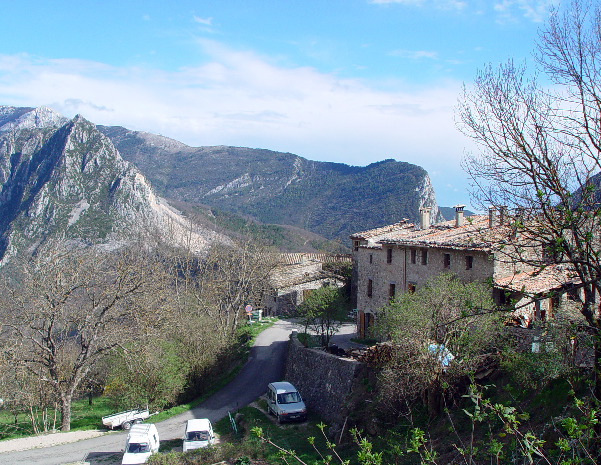 Chasteuil village, Alpes-de-Haute-Provence, France